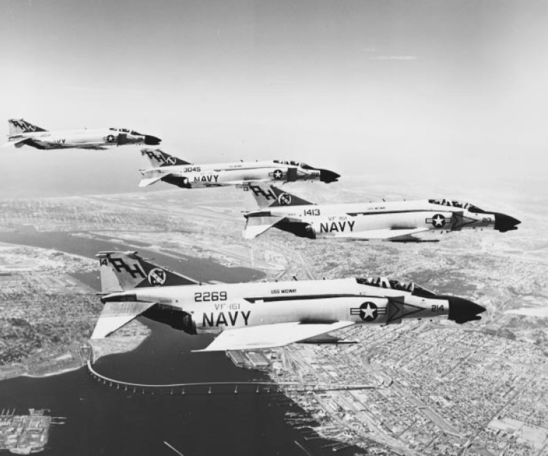 Four U.S. Navy McDonnell F-4B Phantom IIs of Fighter Squadron 161 (VF-161) "Chargers" flying over San Diego, California (USA), in 1970-1971. VF-161 was assigned to Attack Carrier Air Wing 16 (CVW-16), tail code "AH". This wing had been reorganized in 1970 to operate with new squadrons and aircraft from the newly modernized aircraft carrier USS Midway (CVA-41). The conversion of Midway took longer than expected and CVW-16 was disestablished on 30 June 1971. All its squadrons deployed nevertheless on the Midway, having been reassigned to Attack Carrier Air Wing 5 (CVW-5), tail code "NF".